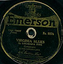 Label of an Emerson Record from en:1919. This 10-inch 78 disc features the early jazz band The Louisiana Five, starring clarinetist Alcide Nunez.